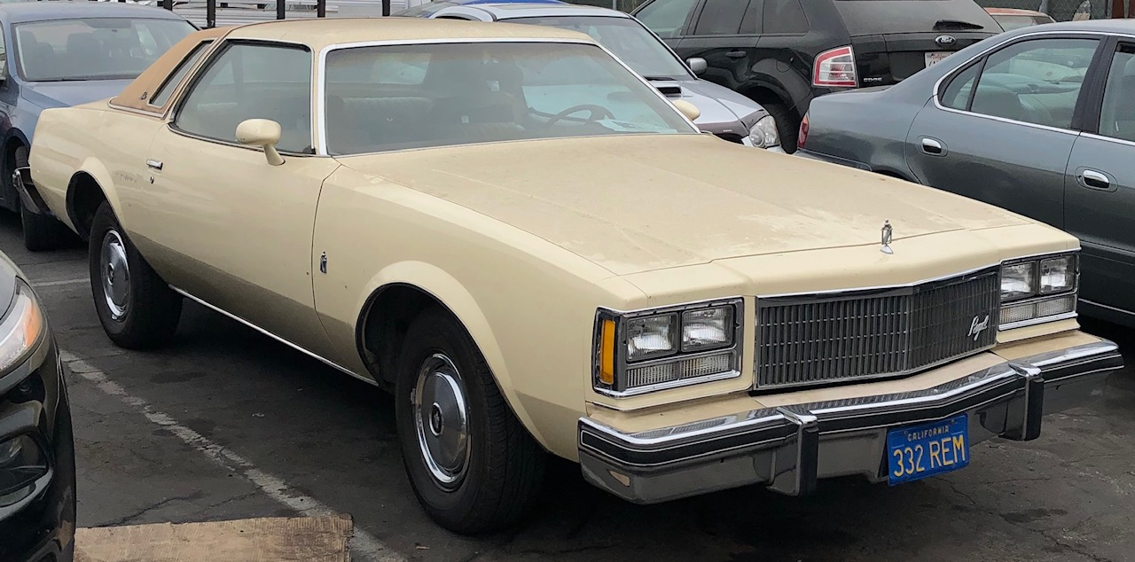 Facelifted A-Body Buick Regal Coupe